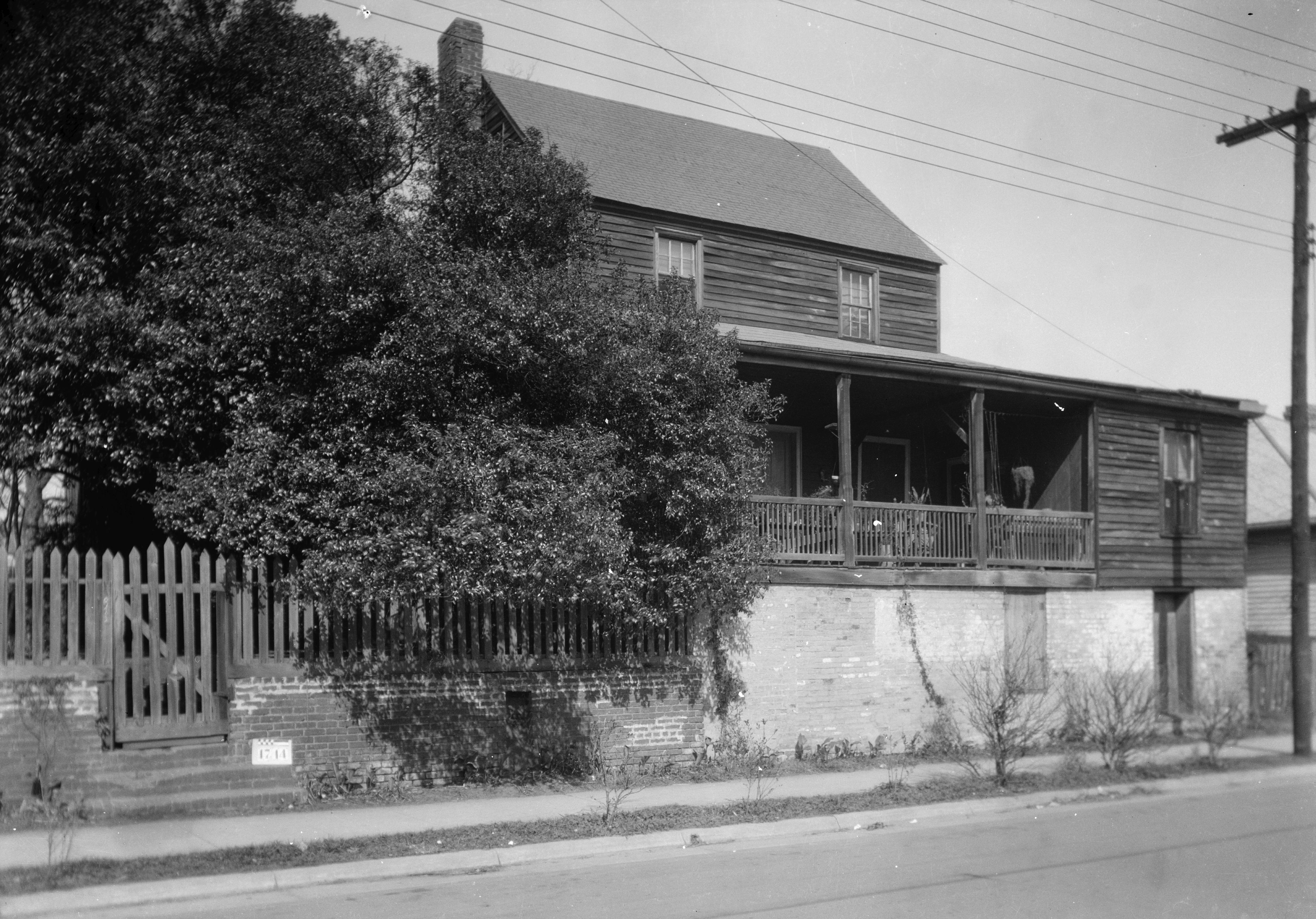 Front of the King's Tavern, located at 611 Jefferson Street in Natchez, Mississippi, United States. Built in 1789, it is listed on the National Register of Historic Places.